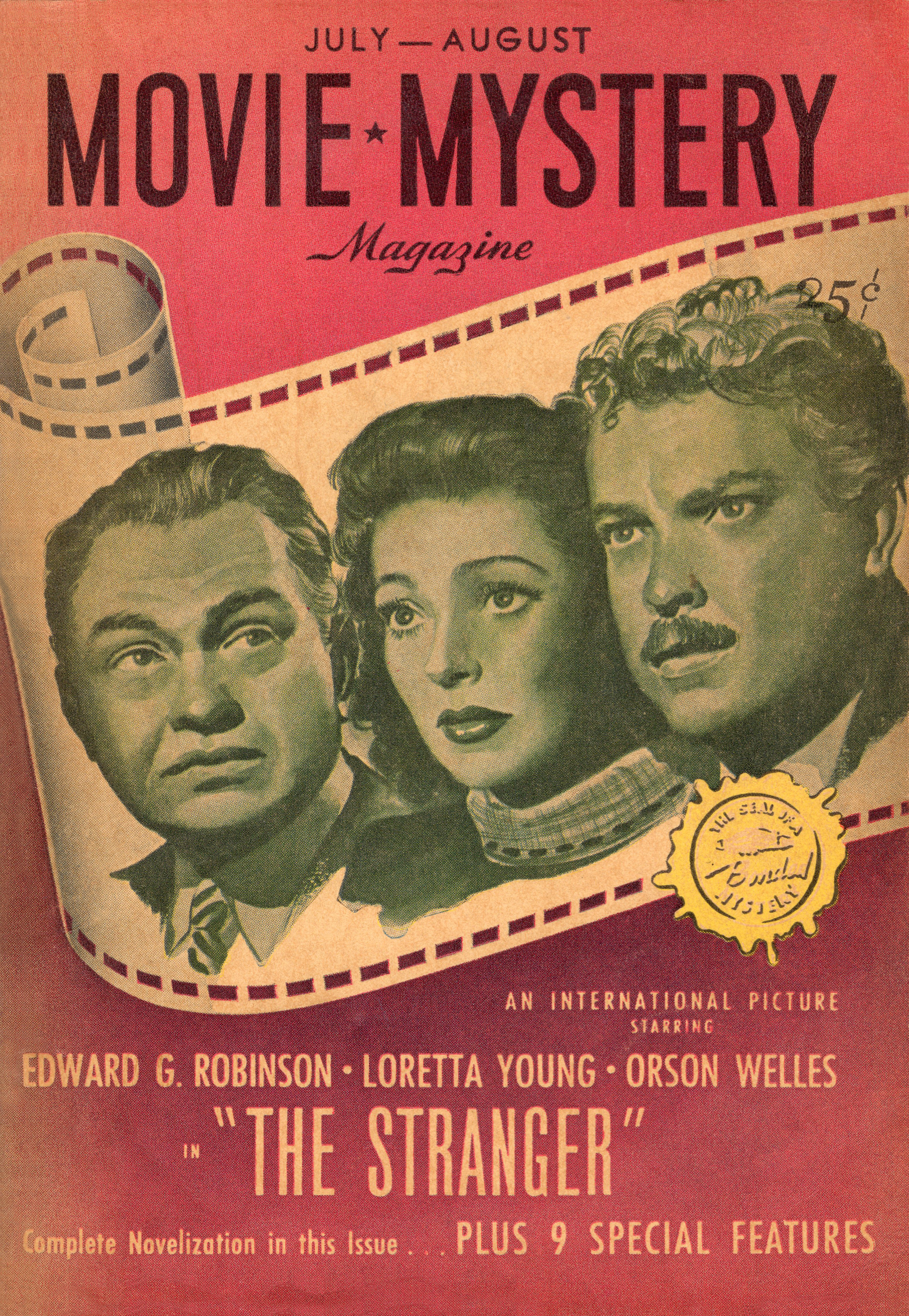 Front cover of the first issue of Movie Mystery Magazine, featuring a condensed novelization of the 1946 film, The Stranger.